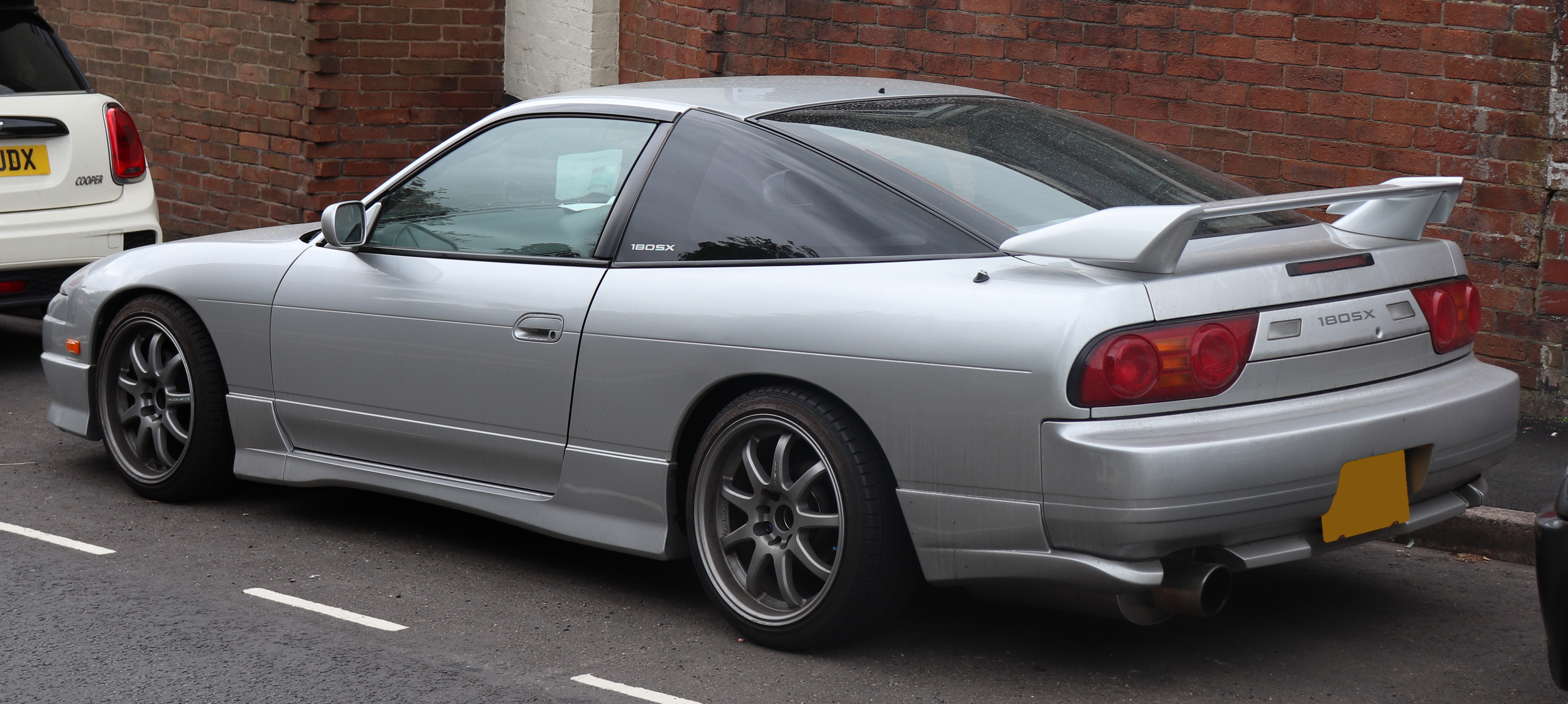 1996 Nissan 180SX 2.0 Rear Taken in Warwick